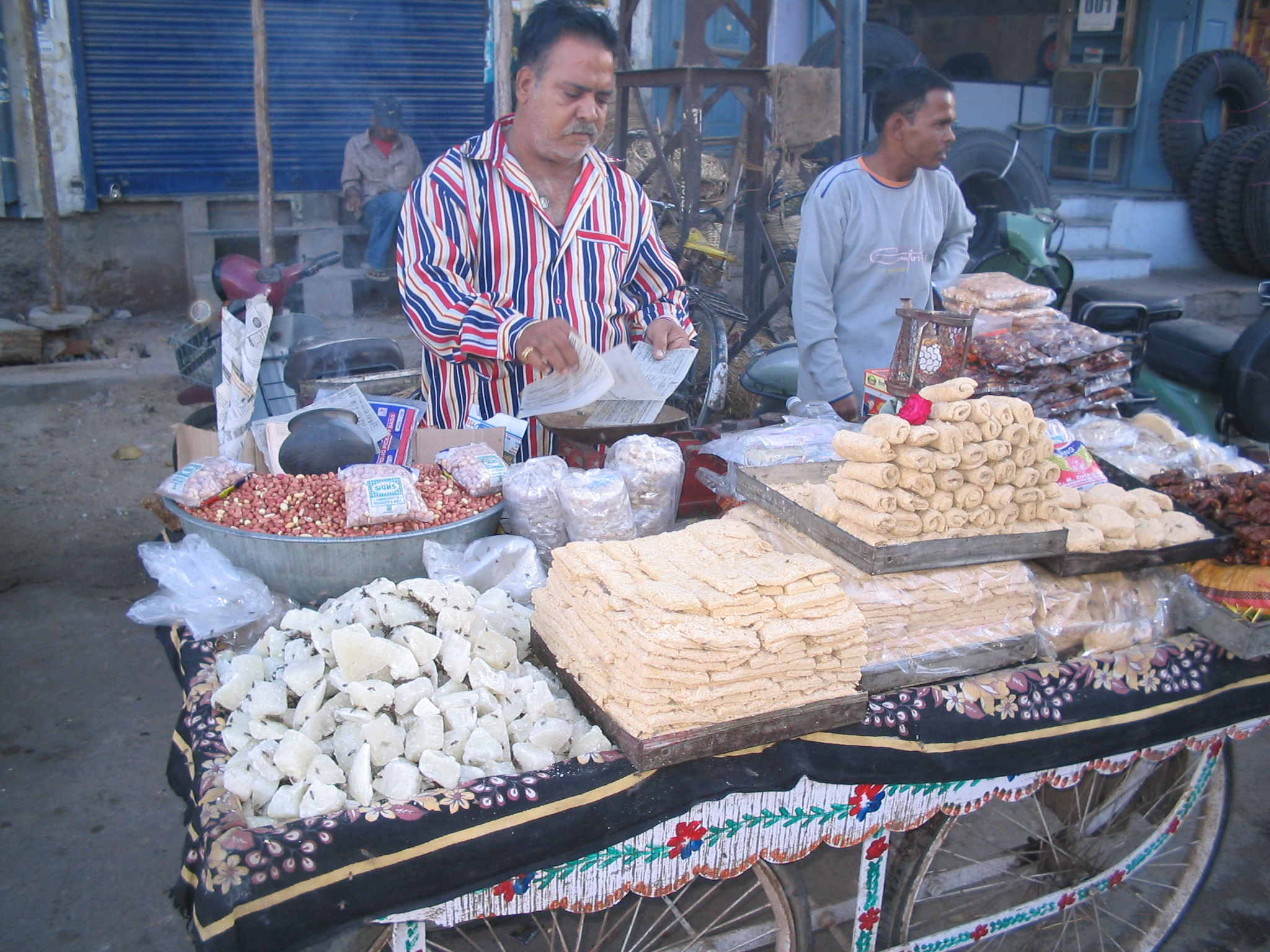 street food in India